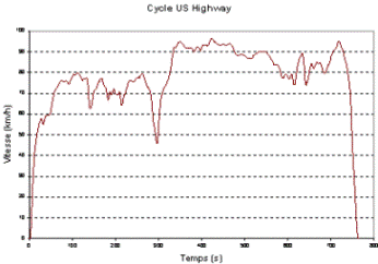 US vehicle certification test cycle SC03 Unit : km/h